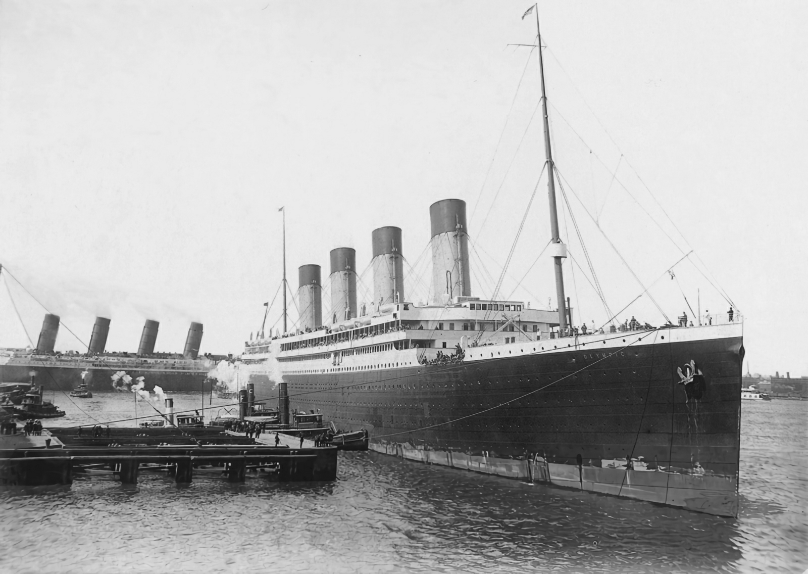 The RMS Olympic leaving port in 1911. The ship in the background is the RMS Lusitania.